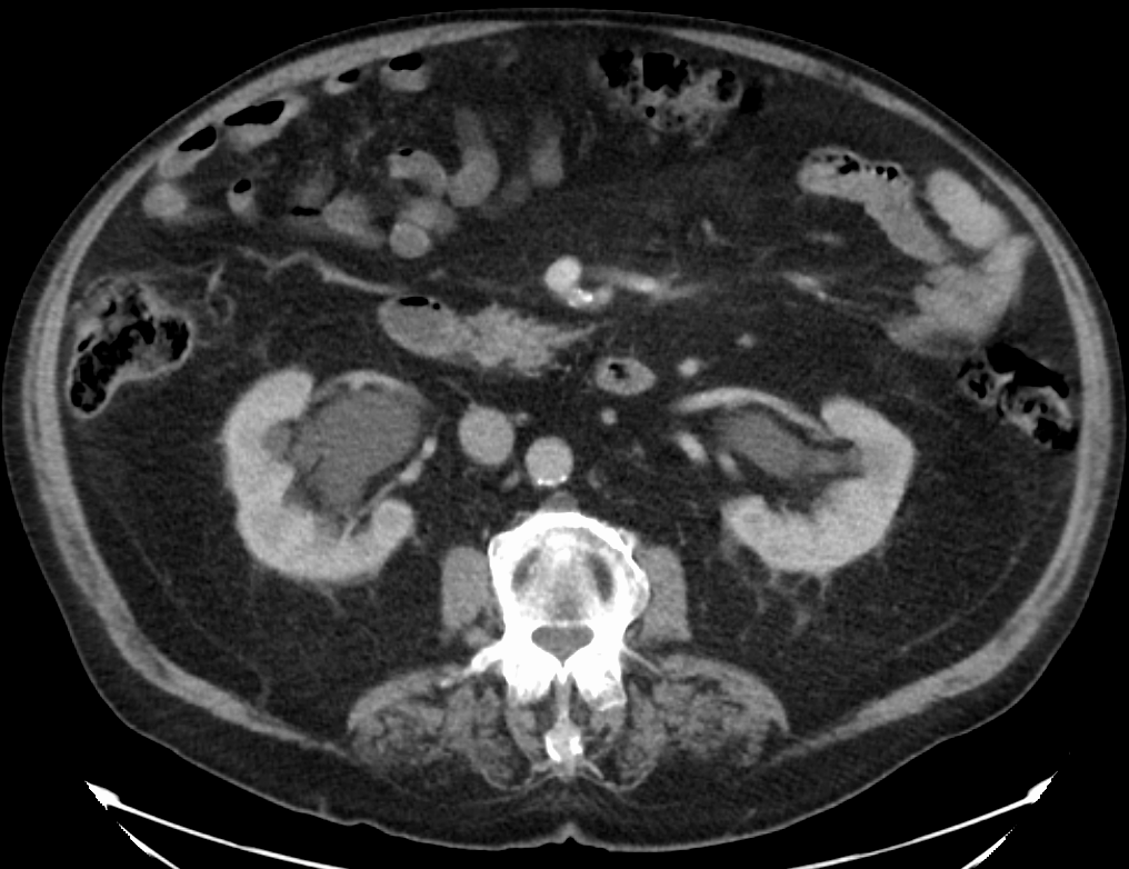 Bilateral hydronephrosis due to a bladder cancer